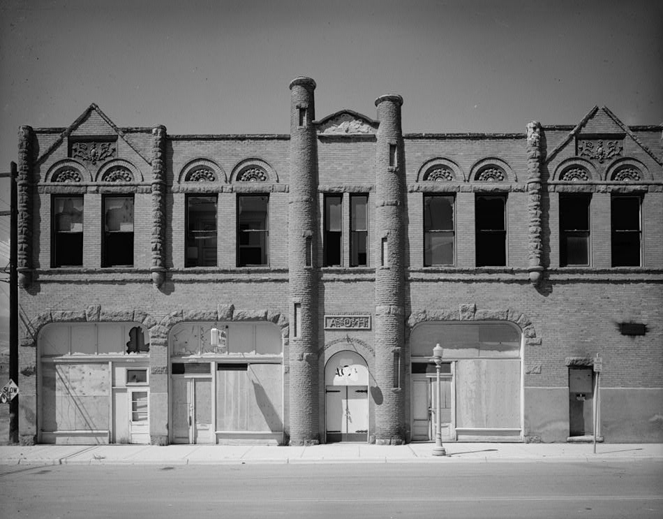 Cedar Street entrance to the Ancient Order of Hibernians Hall, located at 321-323 E. Commercial Avenue in Anaconda, Montana, United States. Built by the Ancient Order of Hibernians in 1899, the building is listed on the National Register of Historic Places.